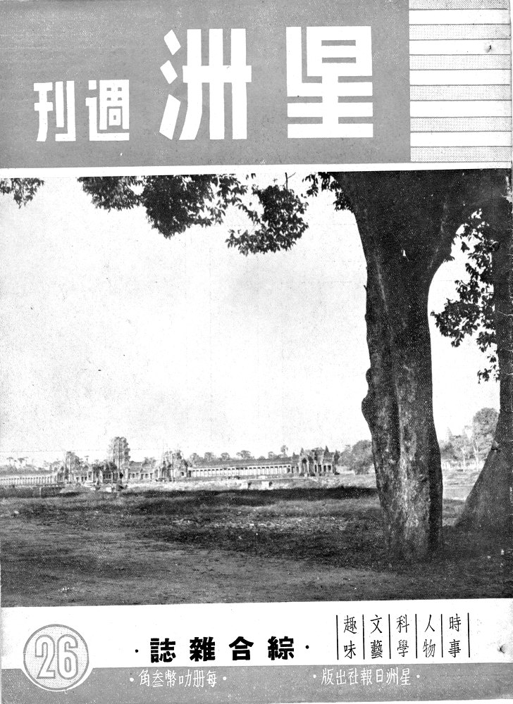 Cover page of Singapore Weeky published Oct 11,1951 Singapore 中文（新加坡）: 星洲周刊 1951年10月11日 第26期 封面